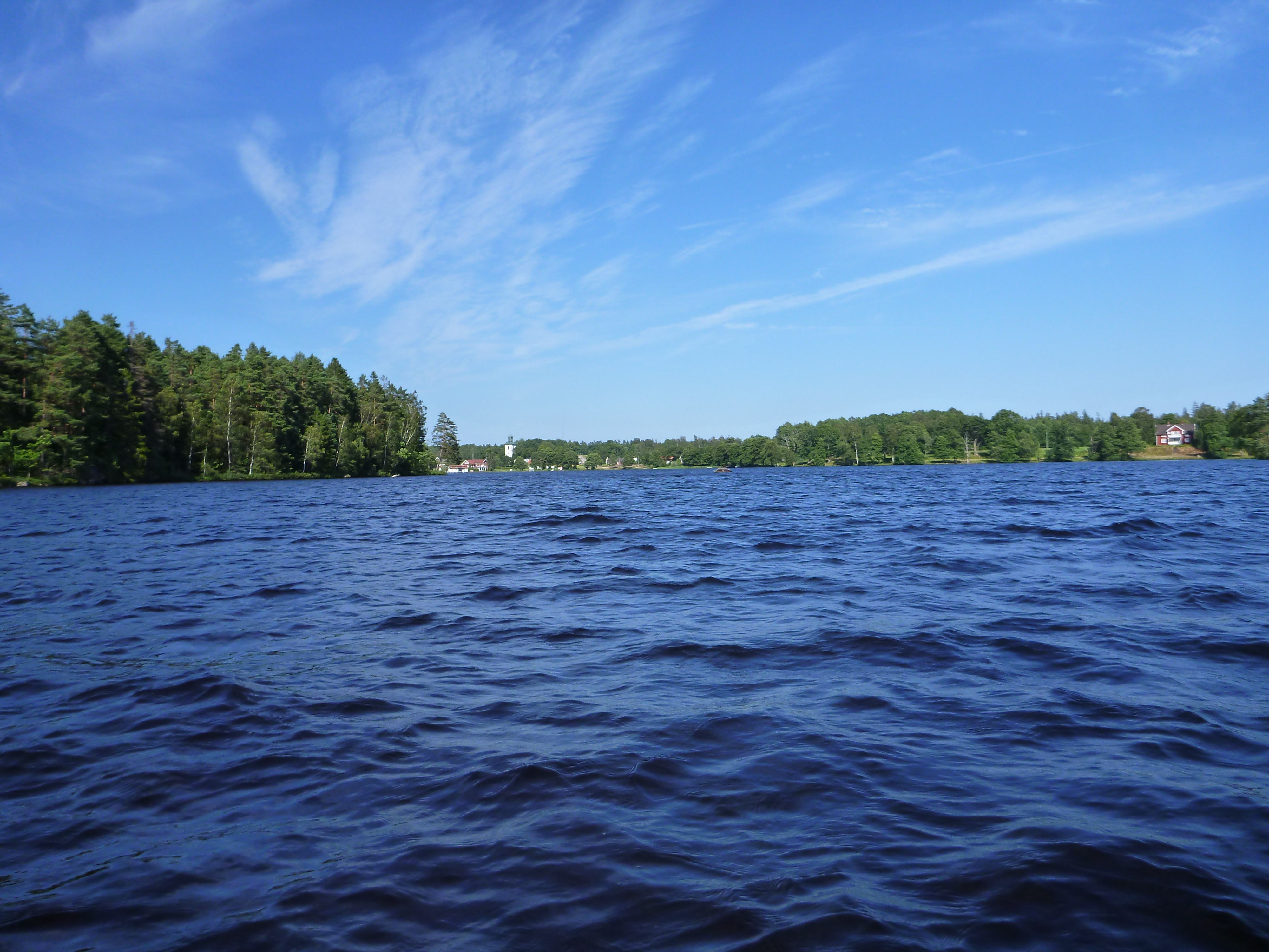 Jälluntofta from lake Jarlunden